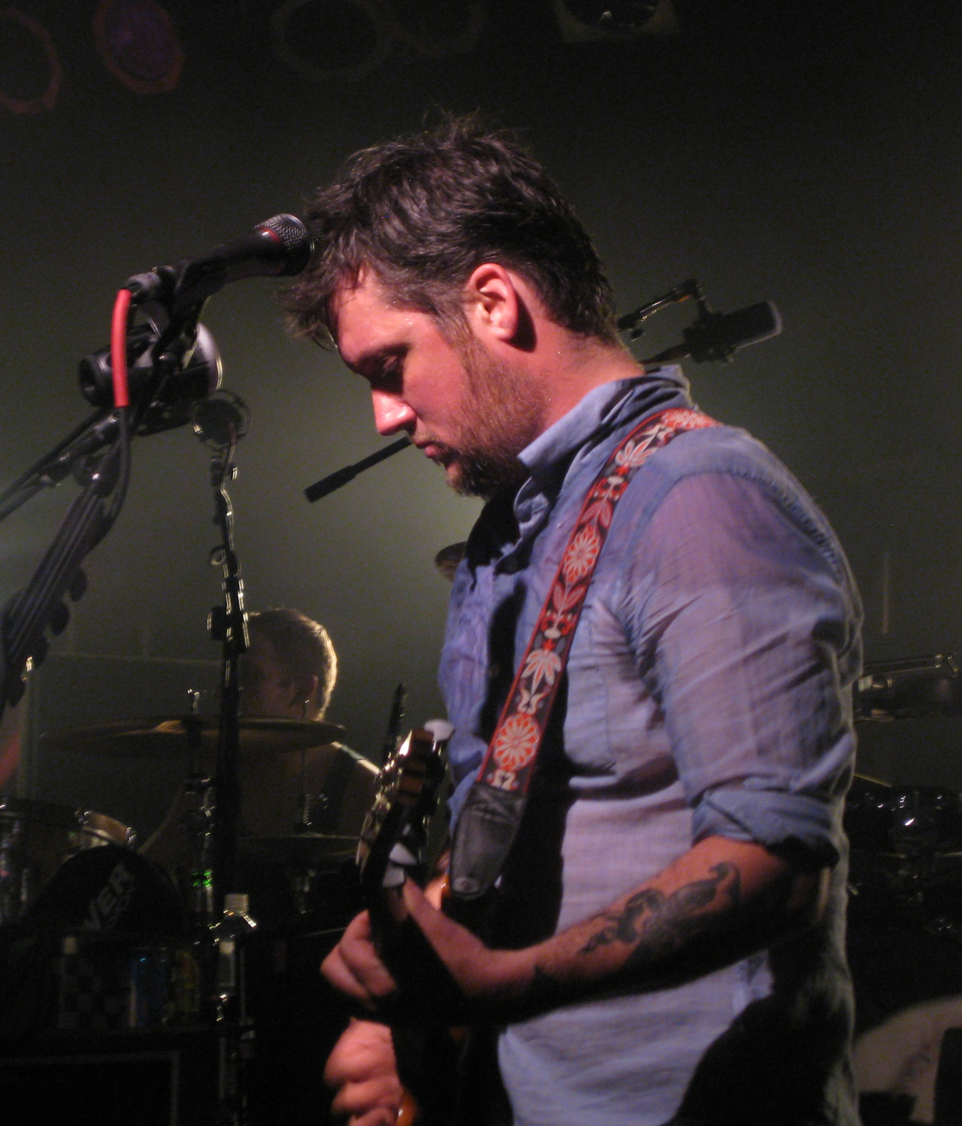 Isaac Brock of the music band Modest Mouse performing in Asheville, NC at the Orange Peel.